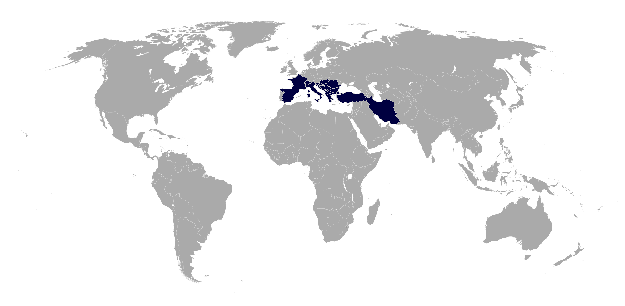 Iolana iolas distribution by country.